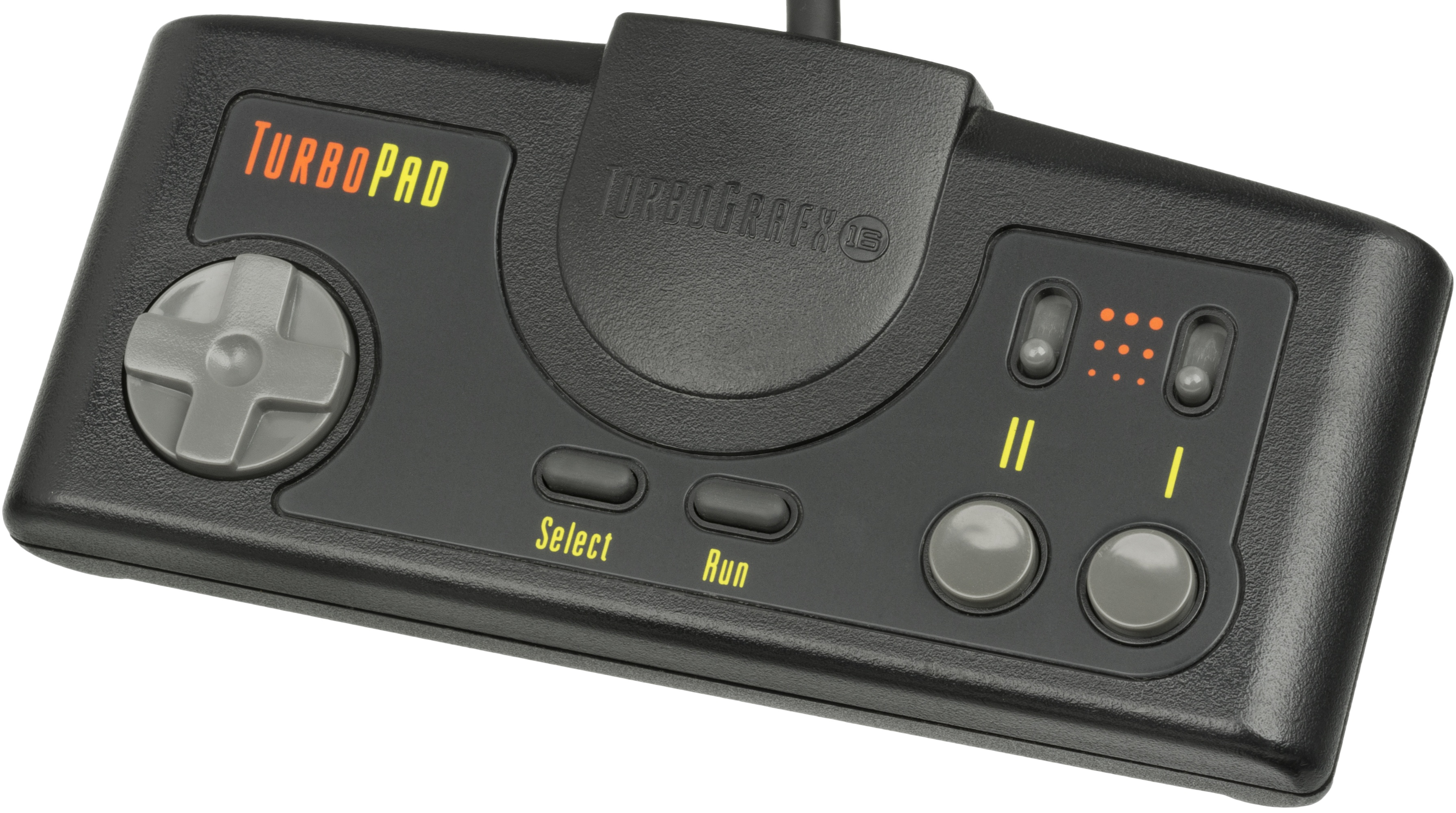 The controller for the TurboGrafx-16 video game console, originally released in 1989.